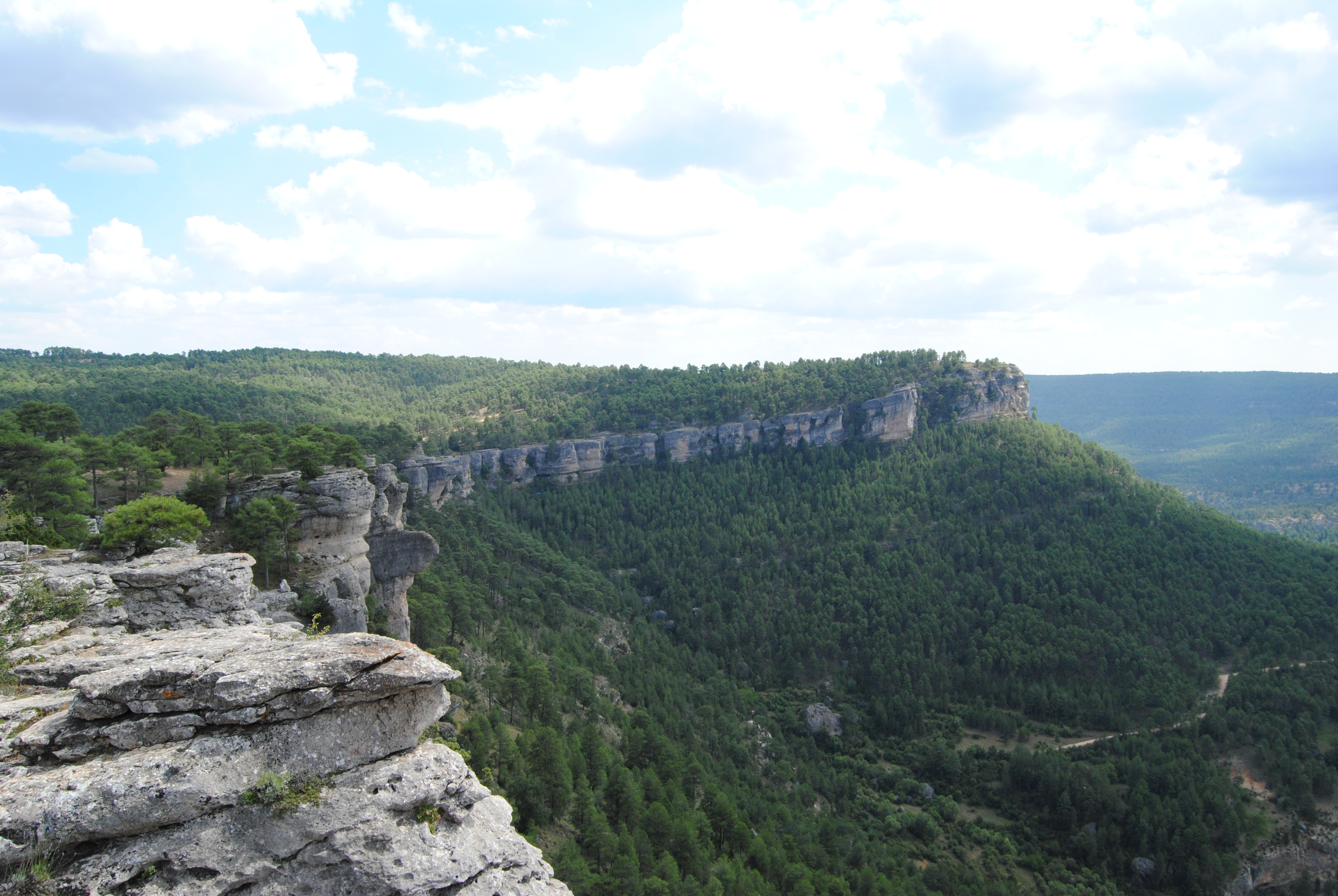 Viewpoint over Las Majadas - Cuenca - Spain